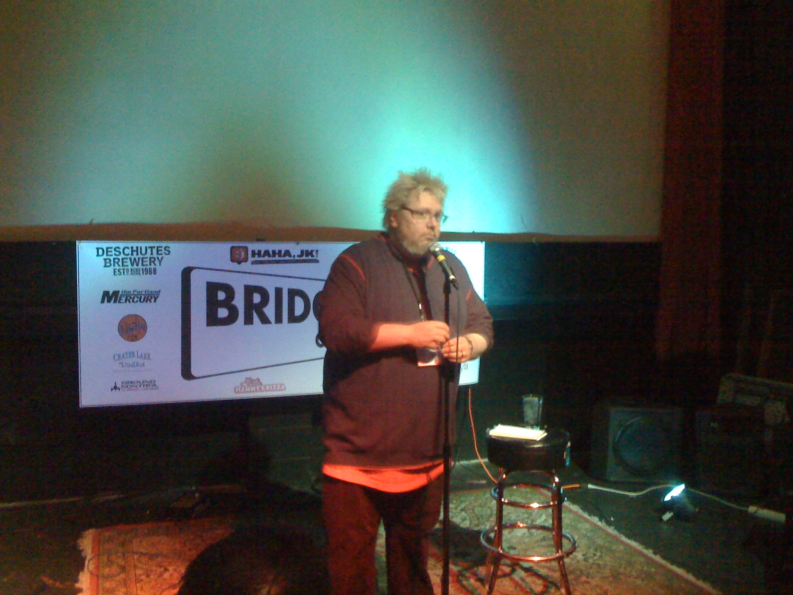 Pete Greyy at the Bridgetown Comedy Festival, 2011